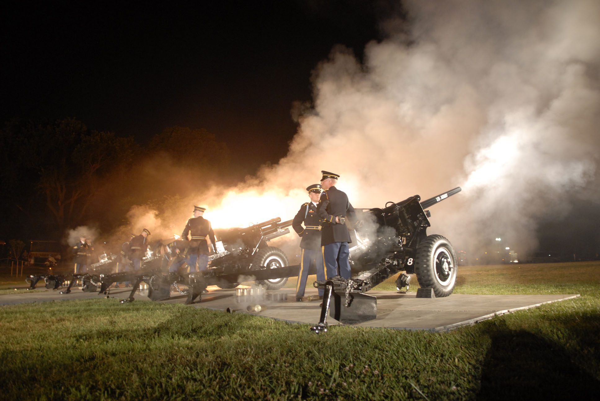 Soldiers from the 3rd U.S. Infantry Salute Guns Platoon, stationed at Fort Myer, Va., fire their 3-inch antitank guns, mounted on 105mm Howitzer chassis, on 12 Aug 2008 during the US Army Band 1812 Overture concert by the Washington monument in Washington D.C. On the order of a member of the band, the Guns are fired to be synchronized with the music. Photo by SSG Christophe Paul